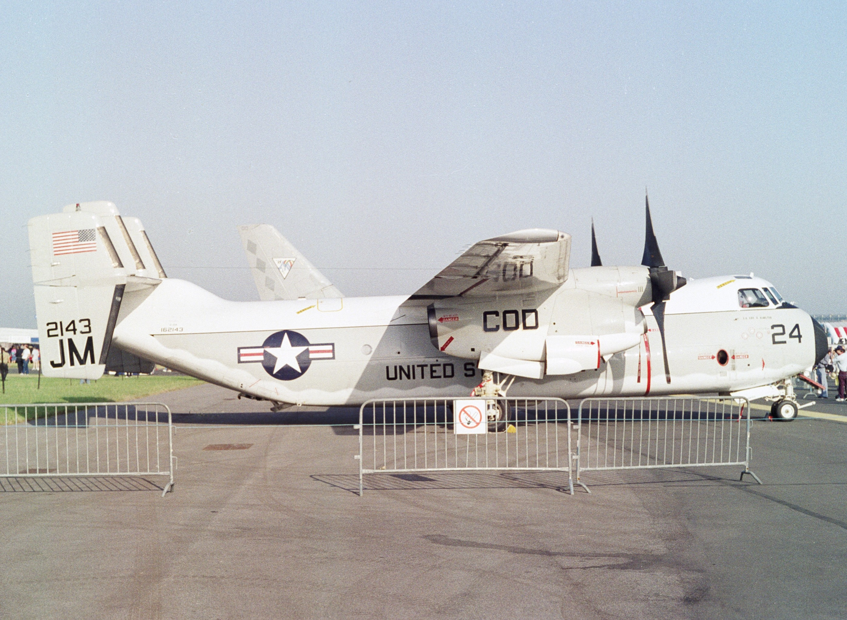 Air Tattoo International, Boscombe Down (EGDM) UK - England, June 13, 1992.